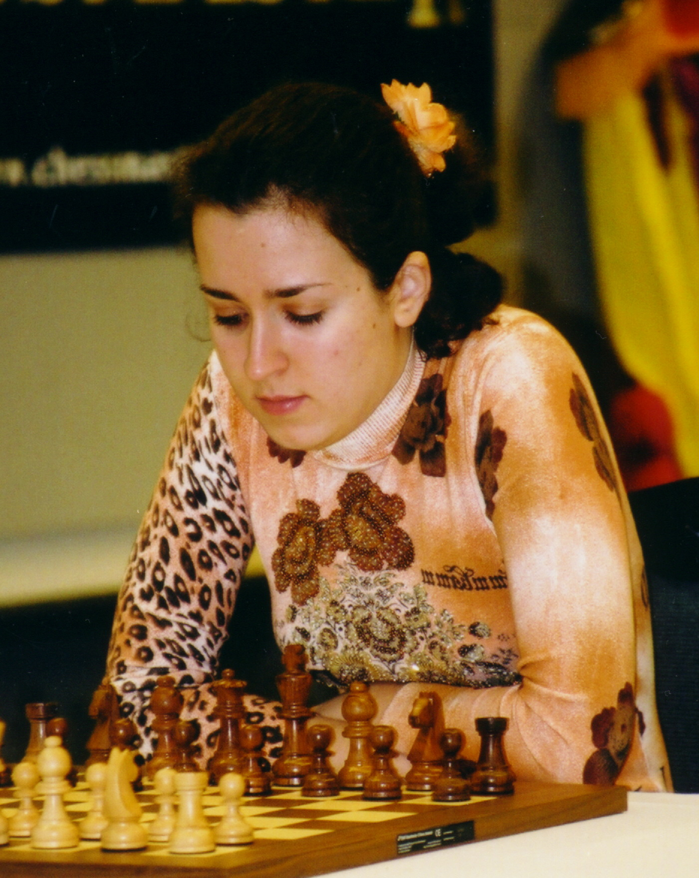 Irena Krush at the 2003 U.S. Chess Championships in Seattle, Washington.